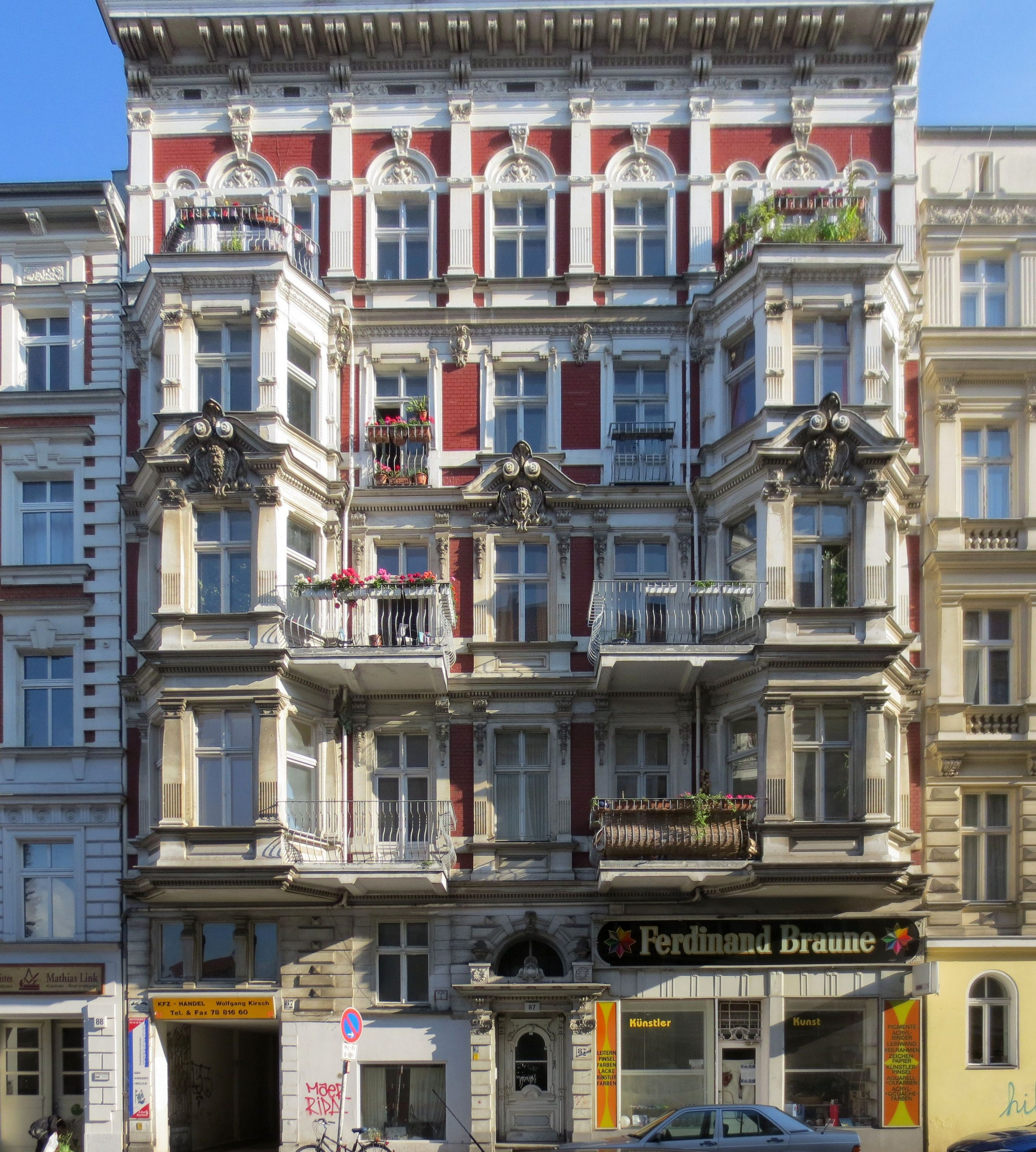 Residential building Grunewaldstraße No. 87 in Berlin-Schöneberg. The house was built from 1887 to 1888 by A. Teichmeyer. It has been designated as a cultural heritage monument.